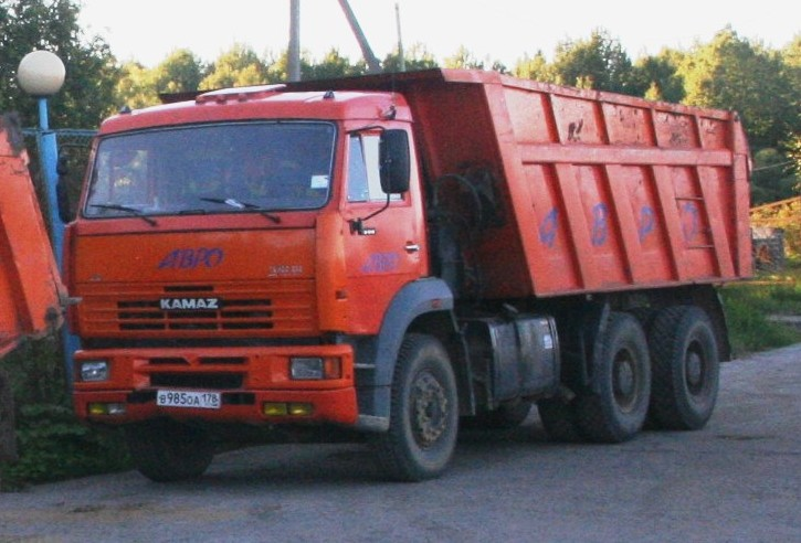 KamAZ-6520